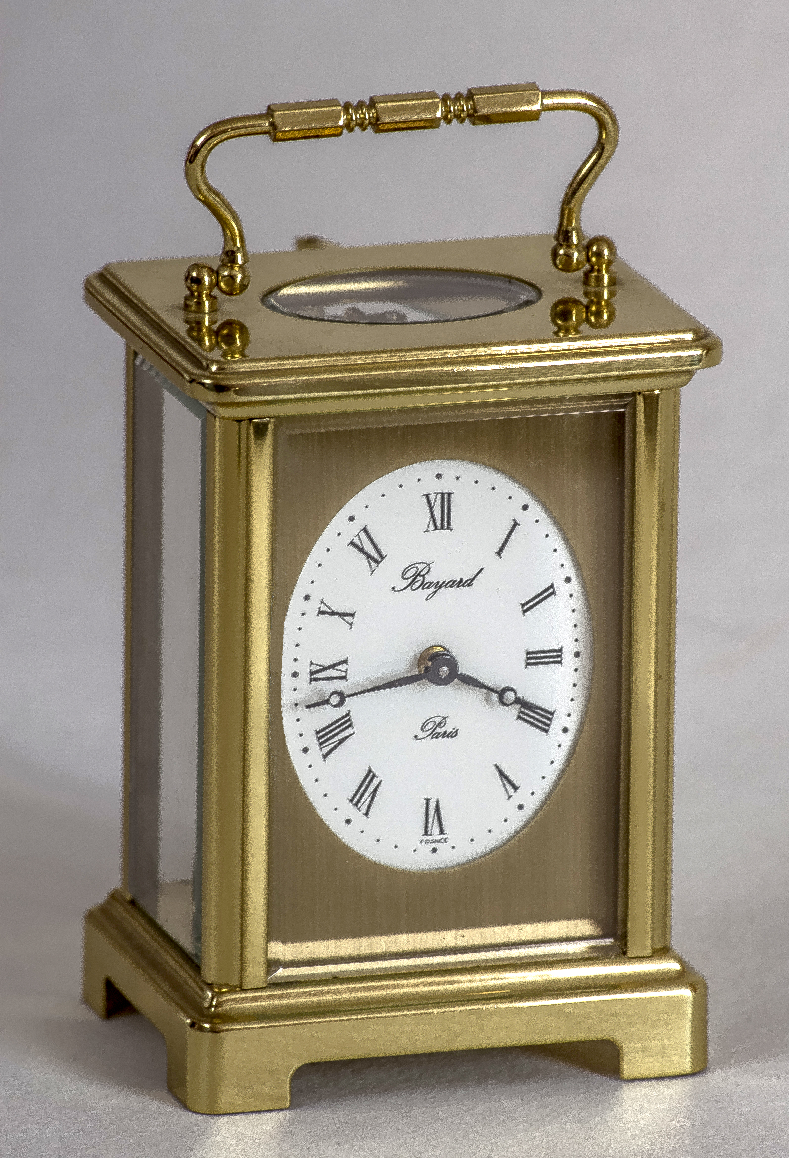 Travel Clock 1983 with mechanical movement. Polished brass case, Roman numerals in an oval white dial on a gilded background, marked Bayard Paris France. On the back plate: "7 jewels Duverdrey & Bloquel France". Bevelled glasses on the top and on the four sides. Visible polished gears. Height: 11.5 cm - Width: 8 cm - Depth: 6.5 cm Made in Saint-Nicolas-d'Aliermont (76), France From February 1907, the DUVERDREY & BLOQUEL clocks are called REVEILS BAYARD. Translated with (free version)